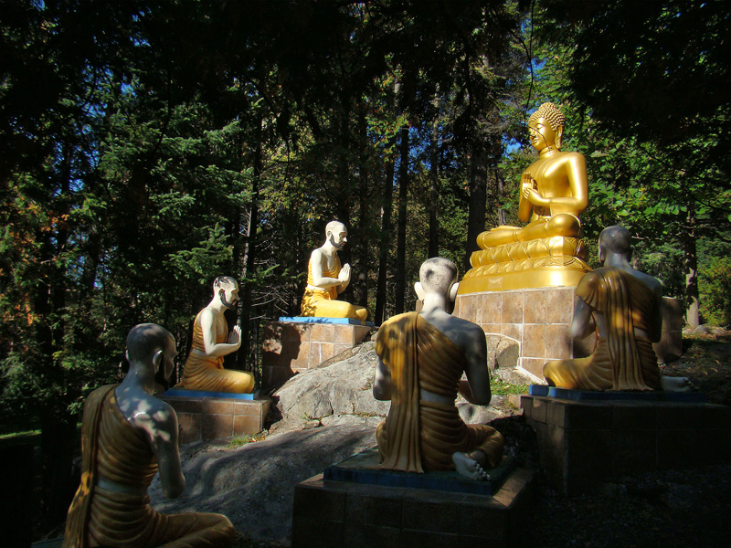 Buddhist Monastery of Tam Bao Son, Township of Harrington, Laurentides, Quebec, Canada. Isipatanagaya, the holy place of the Buddha giving his first sermon to his five disciples.